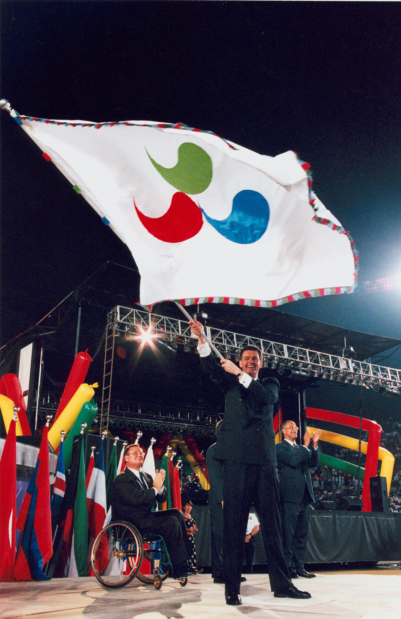 Michael Knight, New South Wales Minister for the 2000 Olympic and Paralympic Games, with the IPC flag at the closing ceremony of the 1996 Summer Paralympics